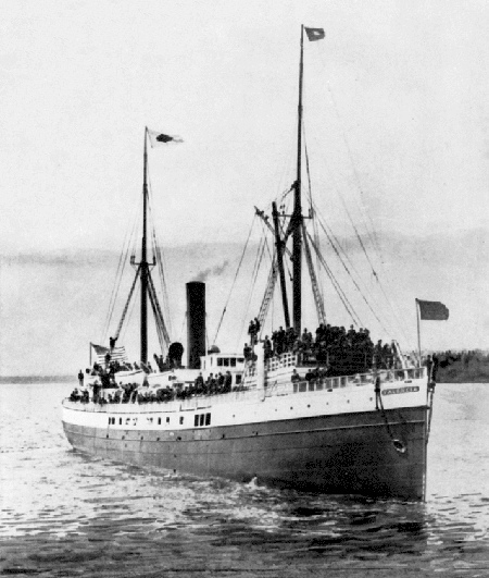 SS Valencia, circa 1905. Source: BC Archives.